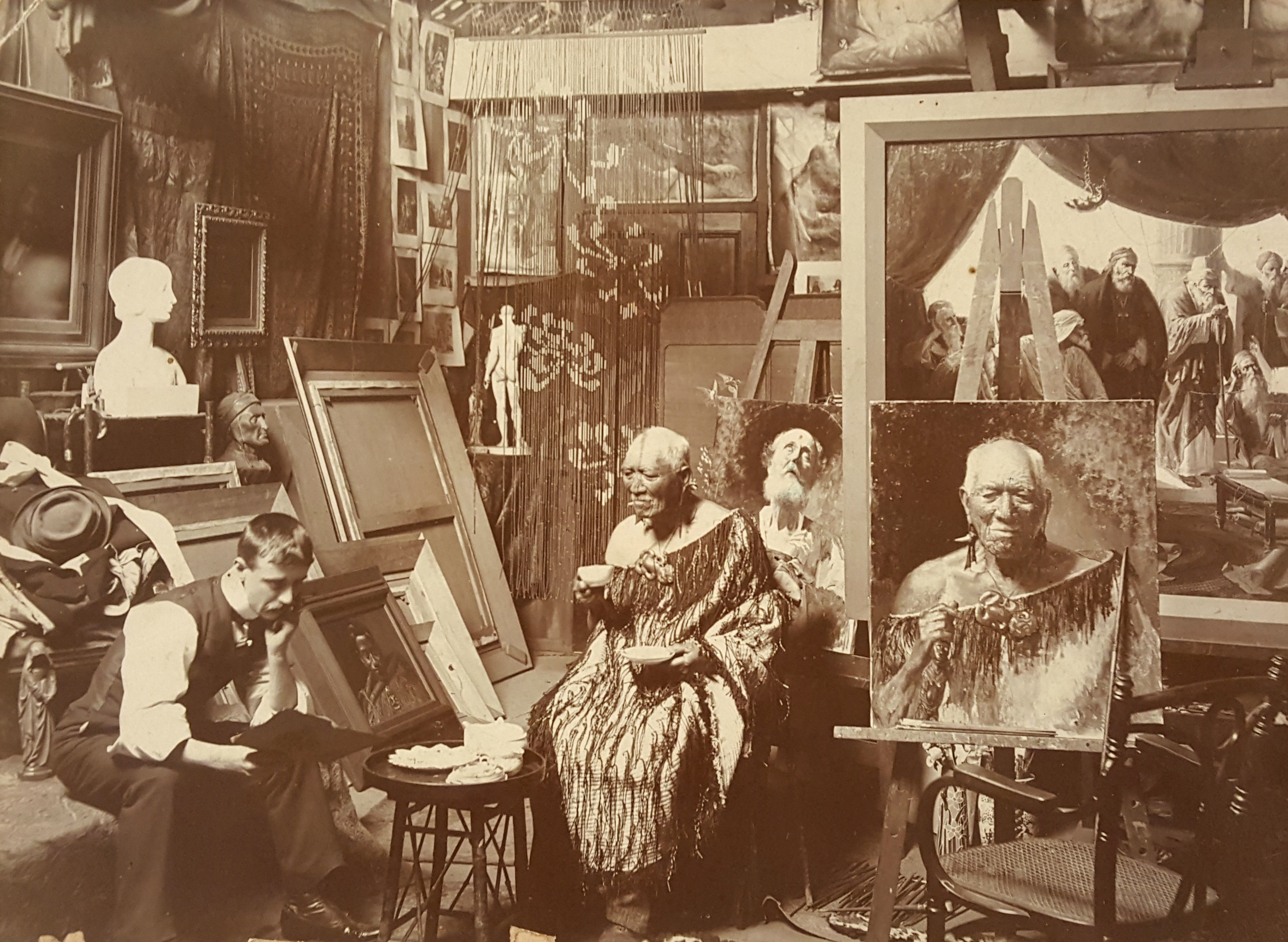 Portrait of C. F. Goldie in his studio with Patara Te Tuhi, attributed Alfred Hill, ca. 1905-1910, from mounted silver gelatin print, SLNSW PXE 1402